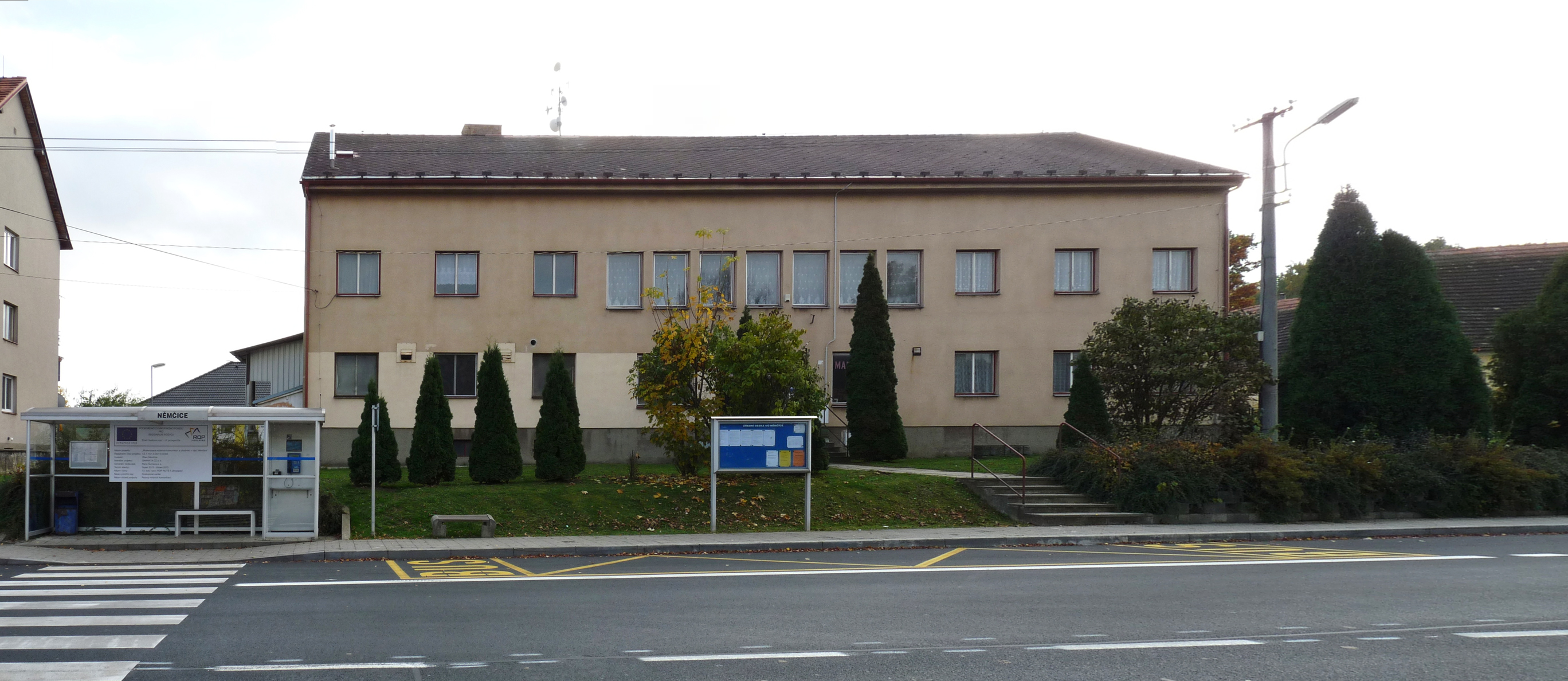 Municipal office building in the village of Němčice, Prachatice District, South Bohemian Region, Czech Republic.